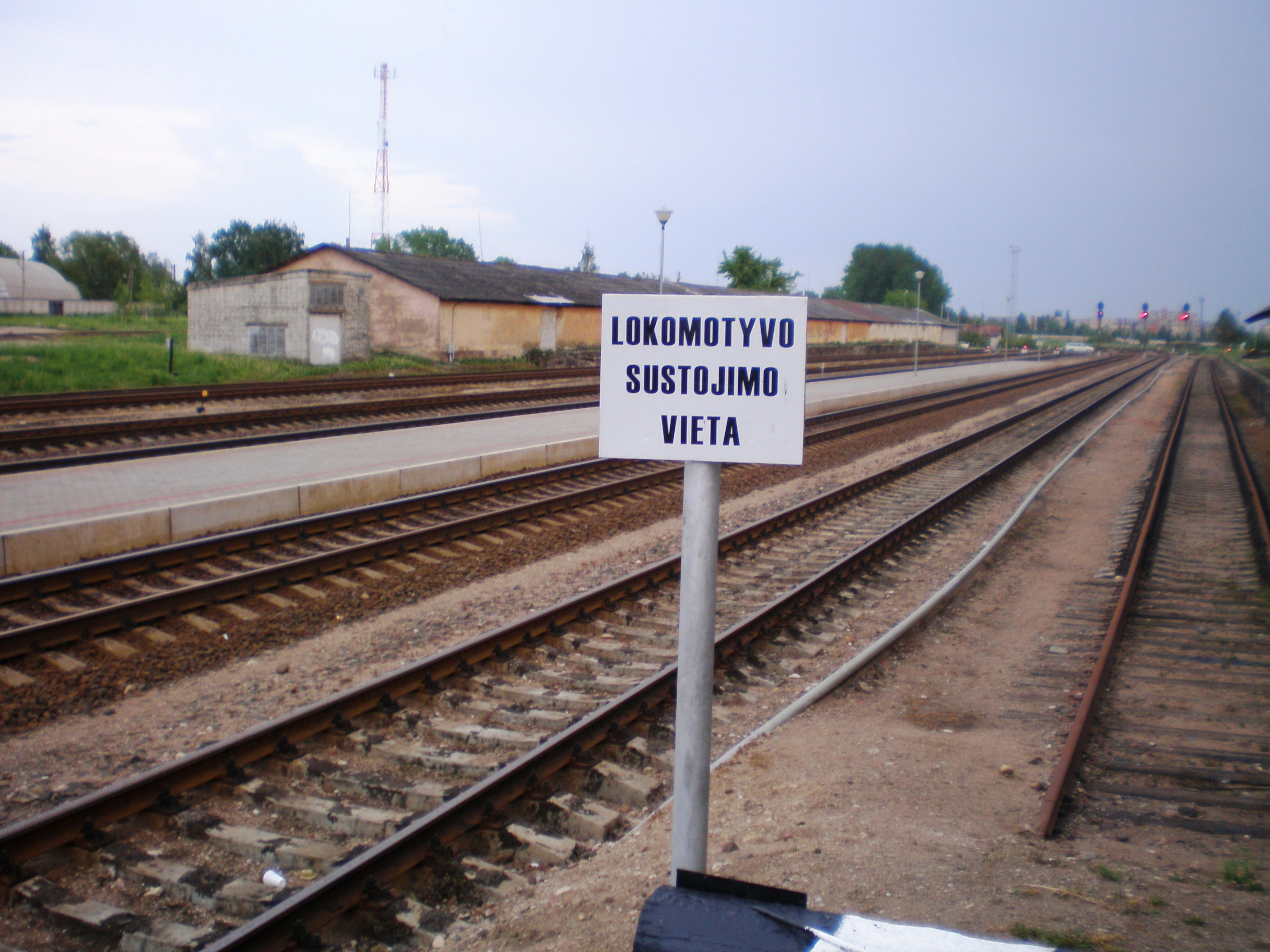 Train station of Jonava, Lithuania